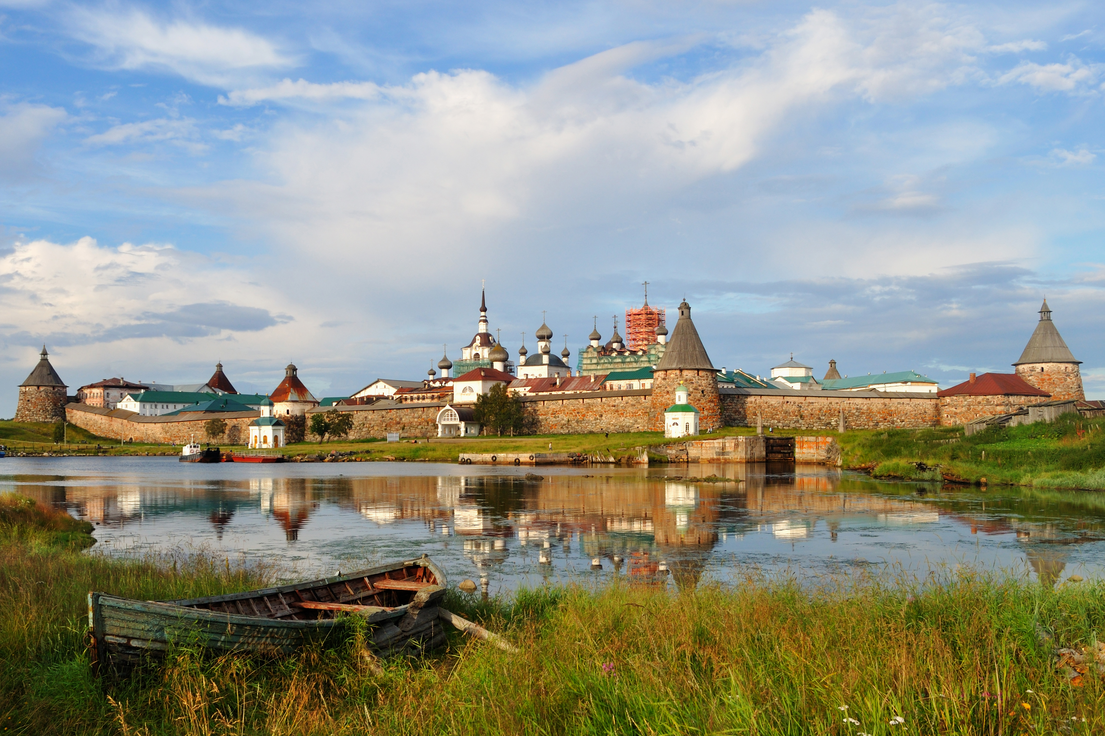 Ensemble of Solovetsky Monastery. Arkhangelsk region, The White Sea in northern Russia